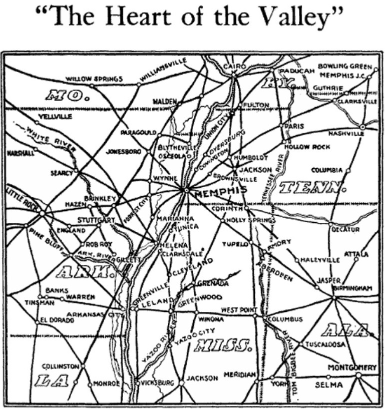 Map of the Mid-South by Charles P. J. Mooney, ed., from The Mid-South and Its Builders: Being the Story of the Development and a Forecast of the Future of the Richest Agricultural Region in the World (1920), p. 73.